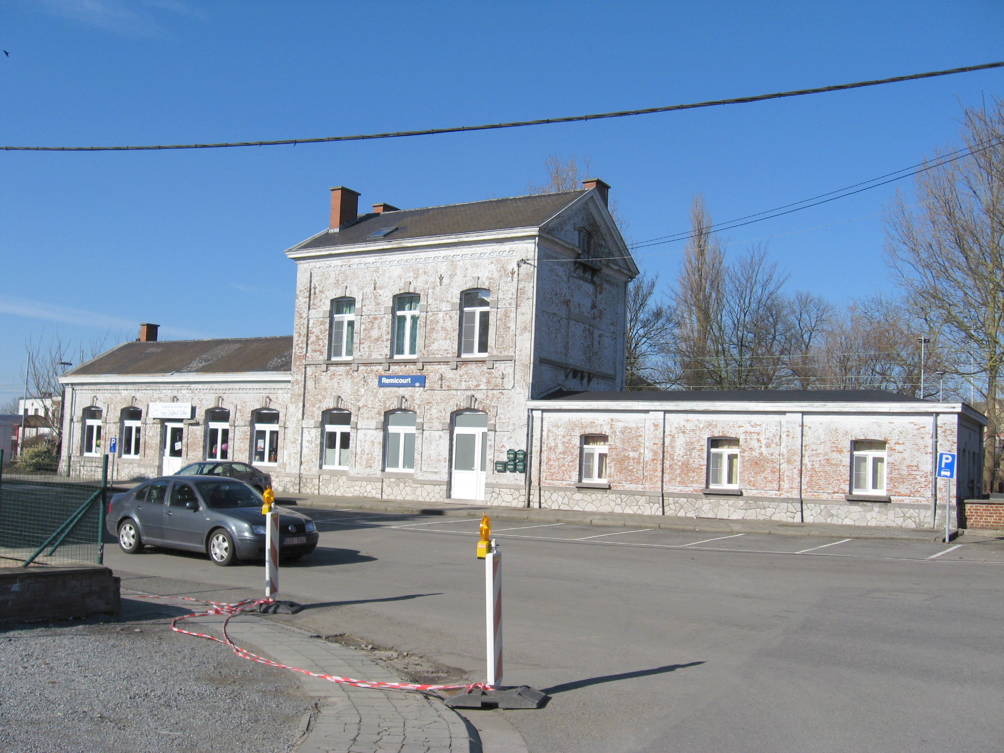 Train station of Remicourt, Liège, Belgium